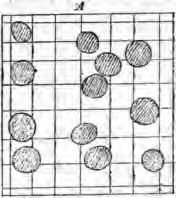 Die Spiele der Griechen und Römer (1887) Author: Wilhelm Richter Publisher: E. A. Seemann Year: 1887 Possible copyright status: NOT_IN_COPYRIGHT Language: German Digitizing sponsor: Google Book contributor: University of Michigan Collection: americana